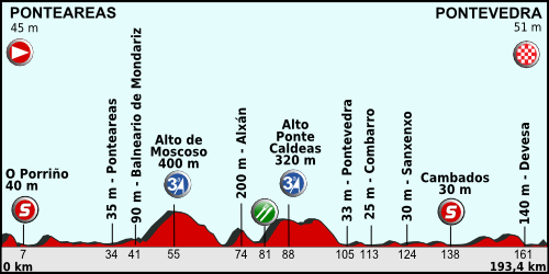 Profile of the 12th stage: Vuelta a España 2011